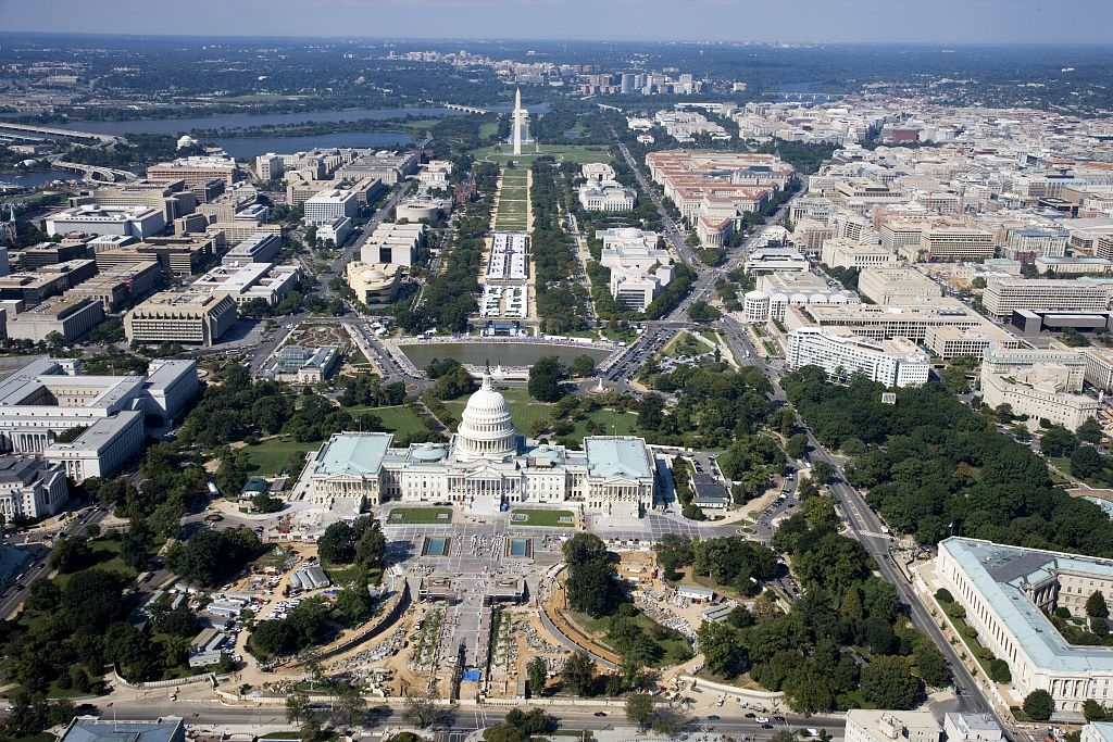 Aerial of the U.S. Capitol under restoration, Washington, D.C.